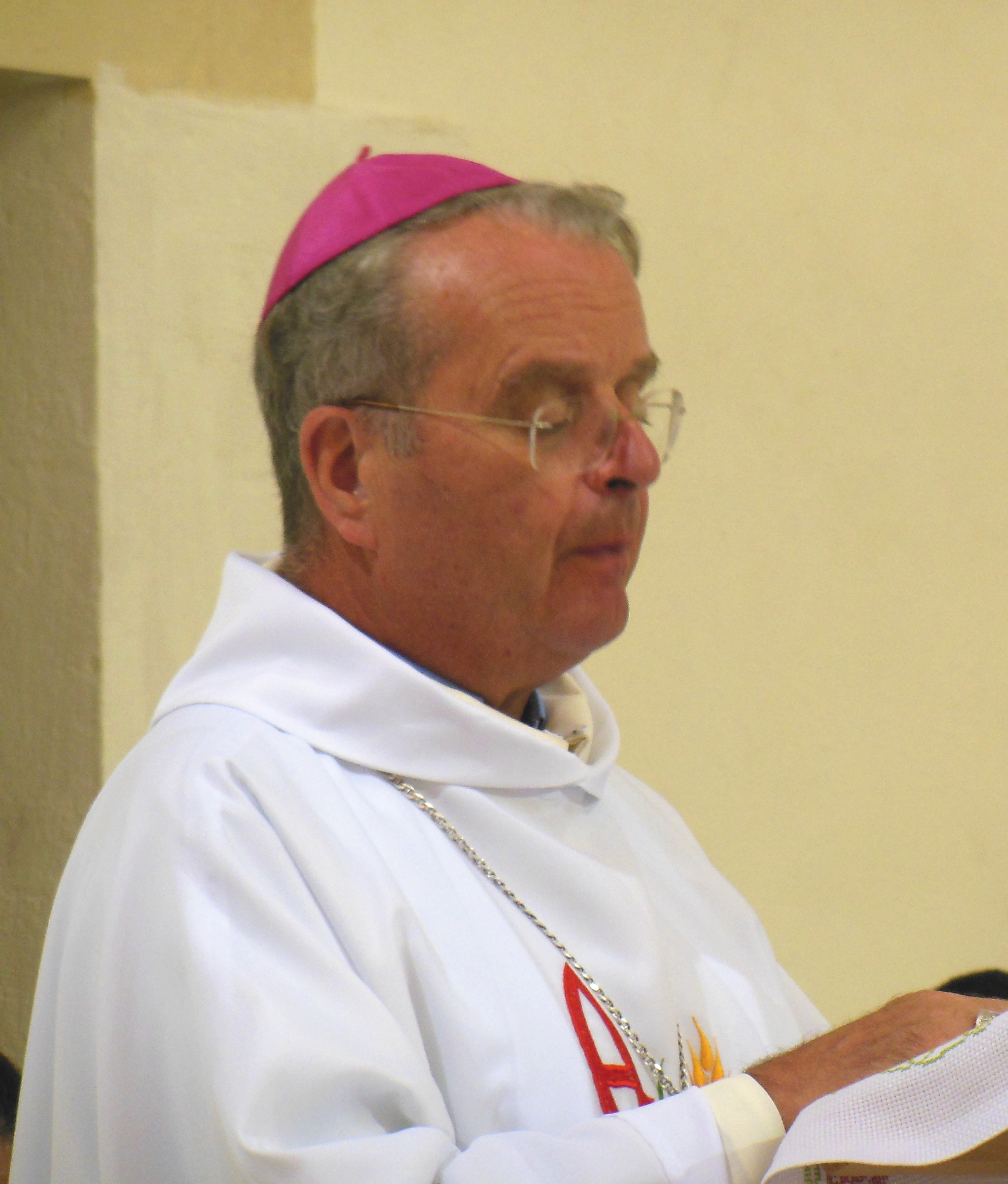 Bishop Arrigo Miglio celebrating in Emmaus